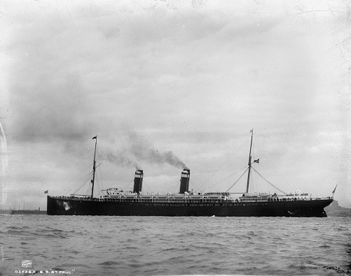 American Line ocean liner SS Saint Paul photographed under steam in or near New York Harbour 1895.